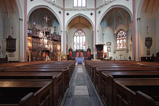 St Dunstan in the West, Fleet Street, London EC4 - Interior